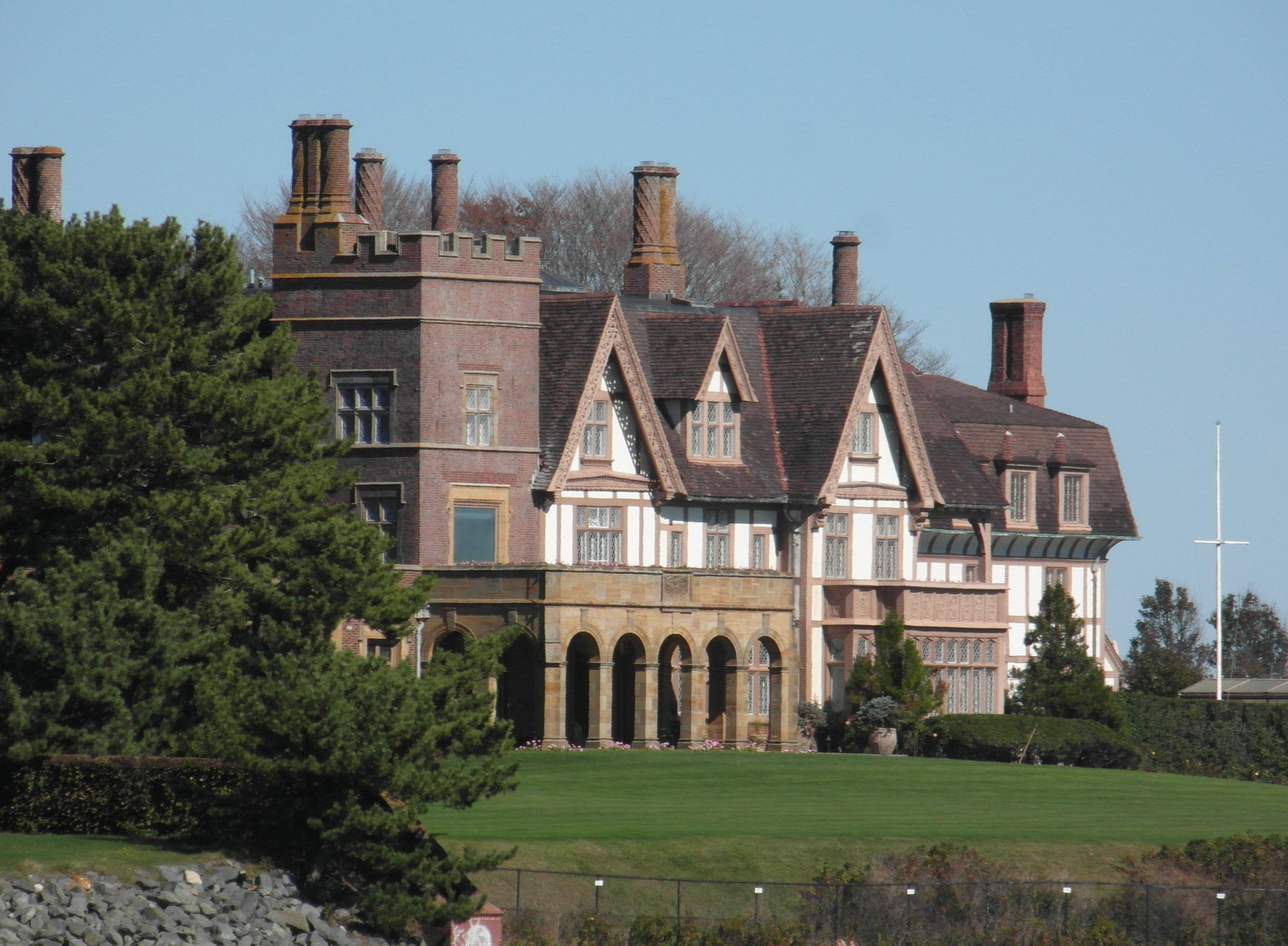 Flickr description "Ruggles Avenue, Newport. Designed by Frank Furness and completed in 1870 for Fairmont Rogers" There are articles on Wikipedia on Frank Furness and Fairman Rogers, who actually built the house. This is a contributing building in the Ochre Point Historic District, which is a contributing district of the National Historic Landmark Bellevue Avenue Historic District